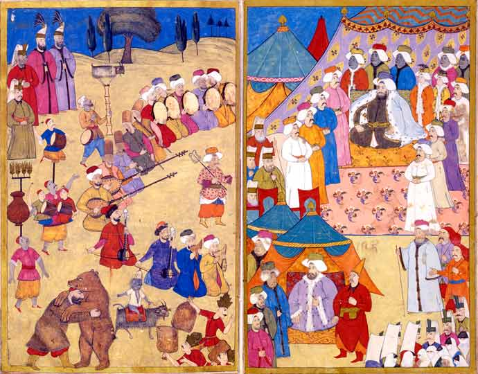 Musicians in front of the Sultan. Ottoman miniature painting, from the Surname-ı Vehbi, kept at the Topkapı Sarayı Müzesi, Istanbul (fol. 57b-58°)